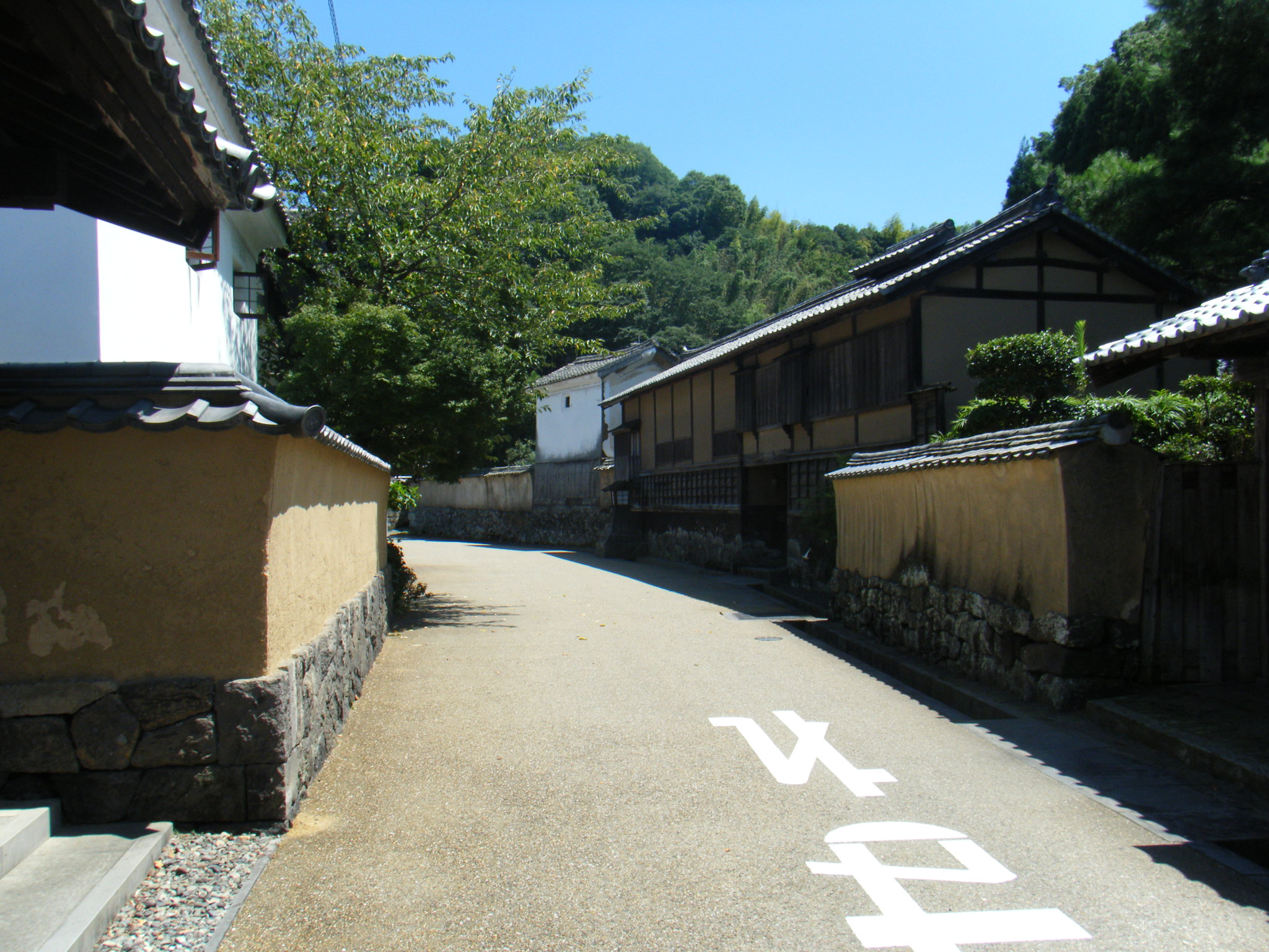 Taketa-bukeyashiki